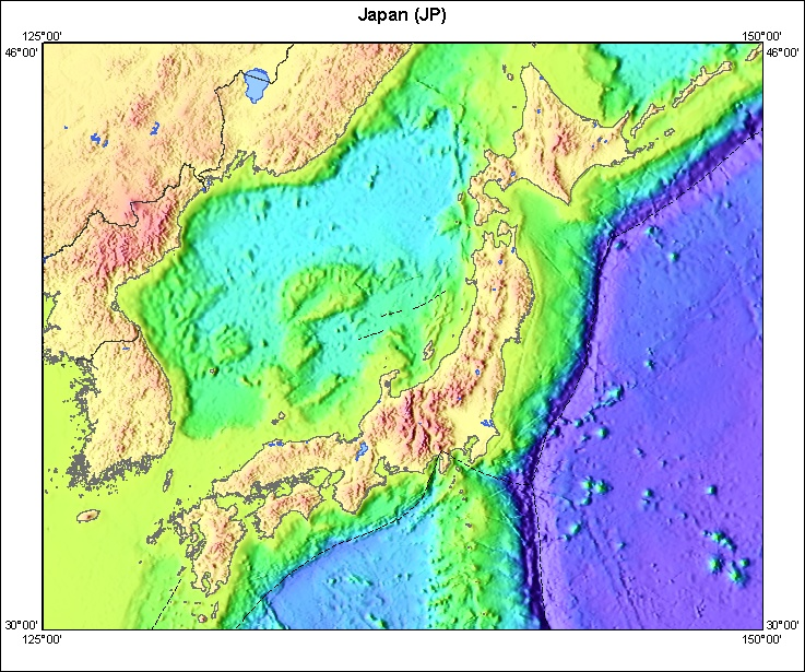 The Island arc pf the Japanese archipelagus.